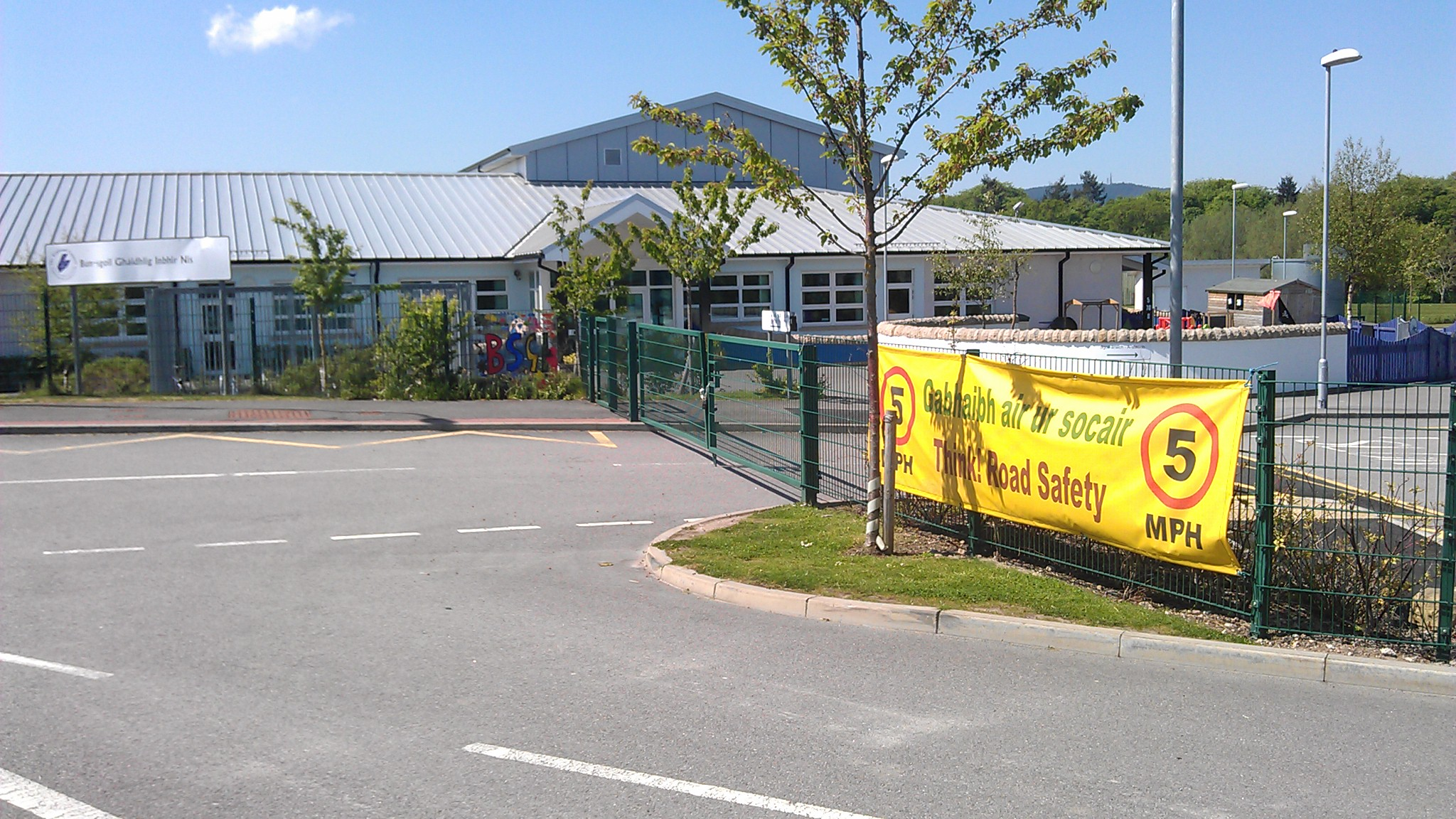 Bun-sgoil Ghàidhlig Inbhir Nis. Inverness Gaelic Primary School. Nice use of bilingual signs. In Slackbuie, Inverness, Highland council area.